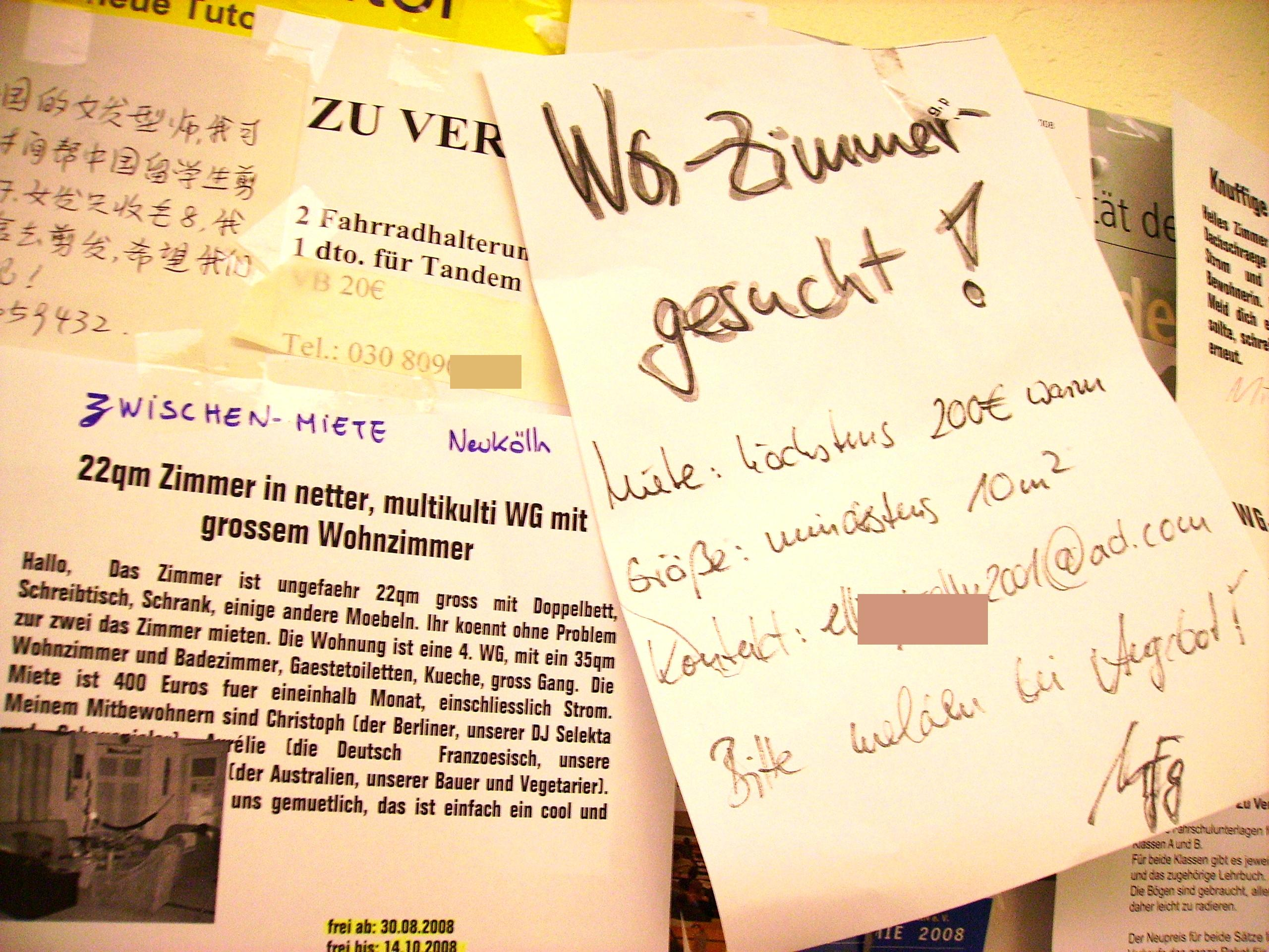 Roommate, Roommate, Коммунальная квартира